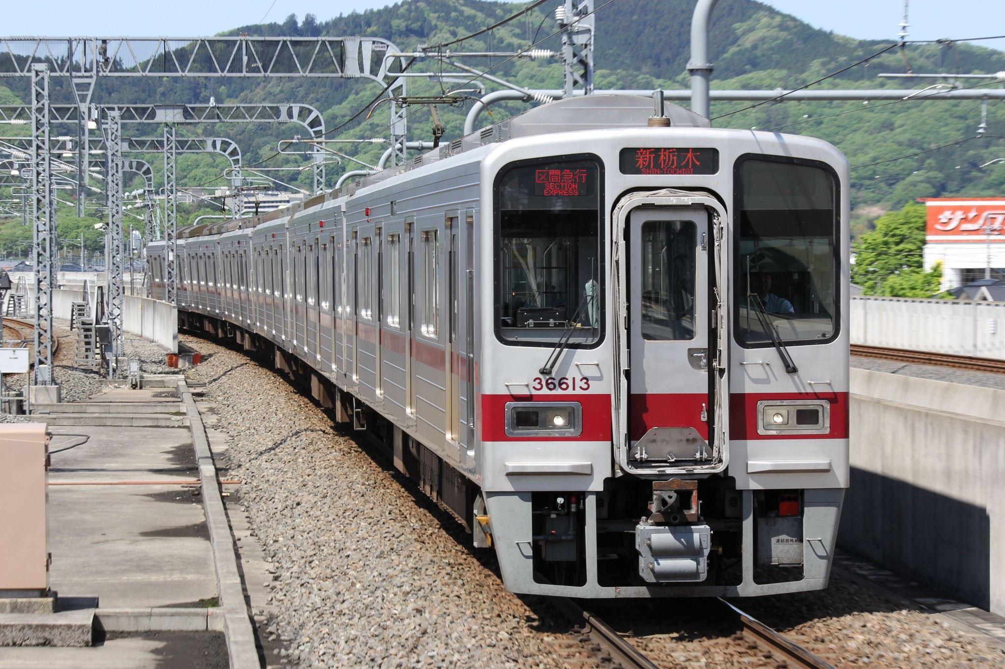 Tobu 30000 series 6-car EMU set 31613 approaching Tochigi Station on a Nikko Line sectional express service to Shin-Tochigi